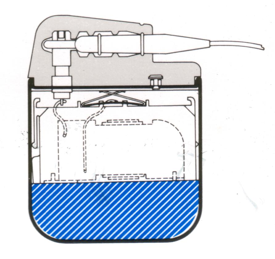 Telectronics heart pacemaker model 160 1976